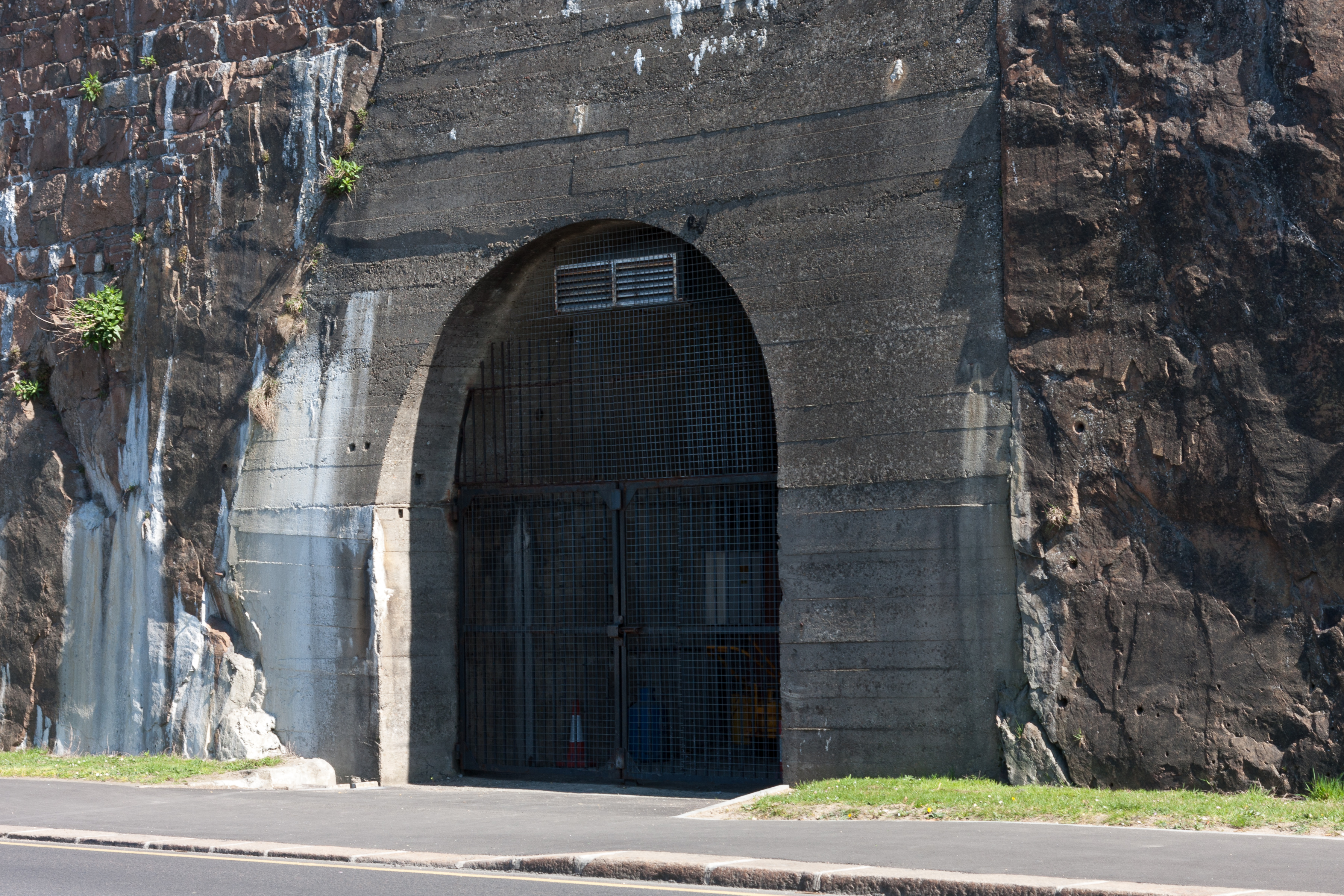 Tunnel under Pier Road, St Helier, Jersey.